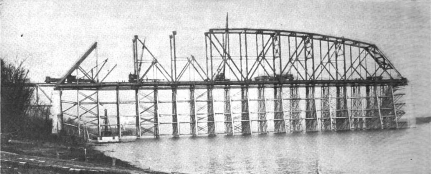 Erection of 720-ft. span on Nov. the 25. 1916; Crane wirh 135-ft. boom placing top chord